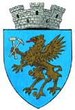 Coat of arms of Abrud, Alba County, Romania.